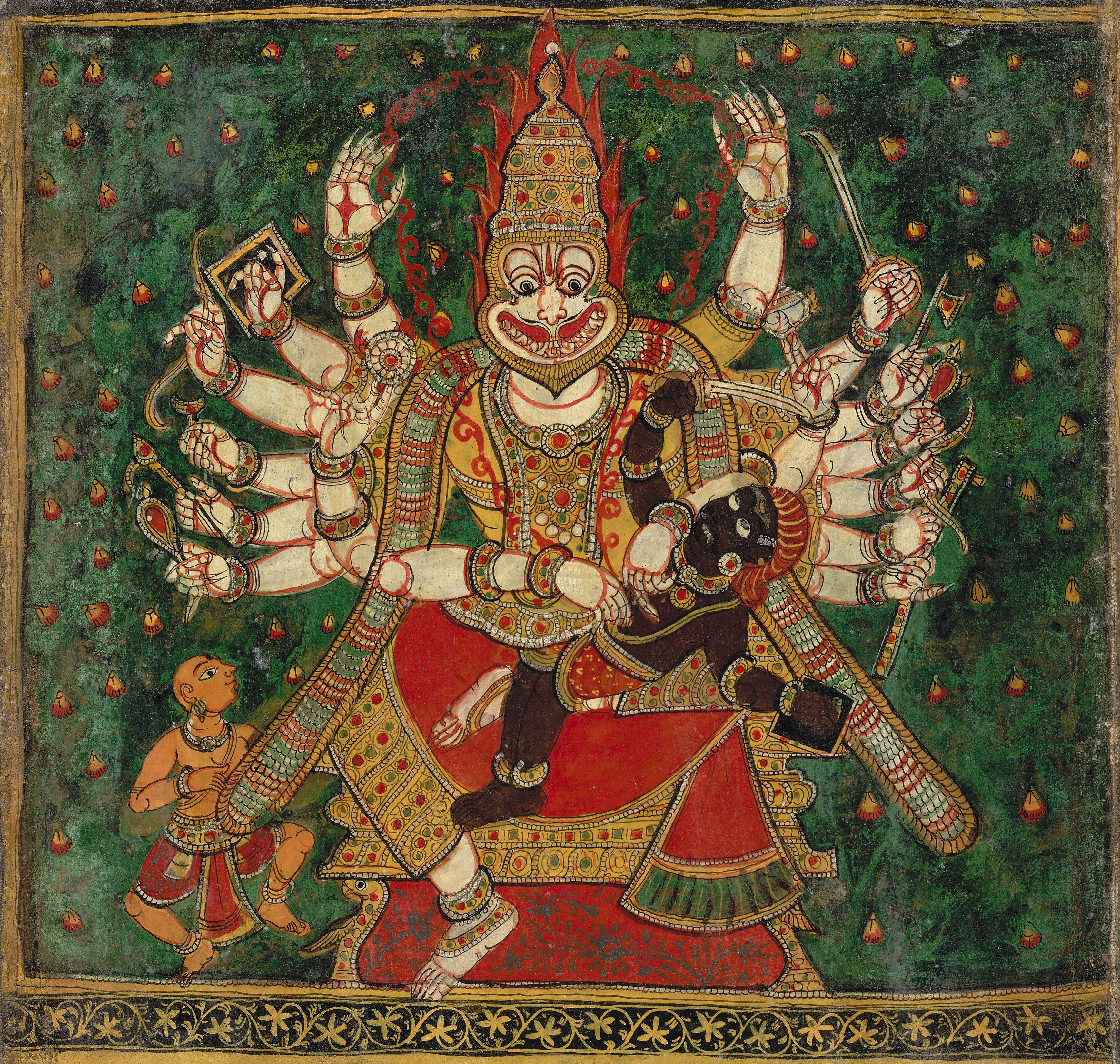 Narasimha killing Hiranyakashipu on his lap, as Prahlada watches at the left.